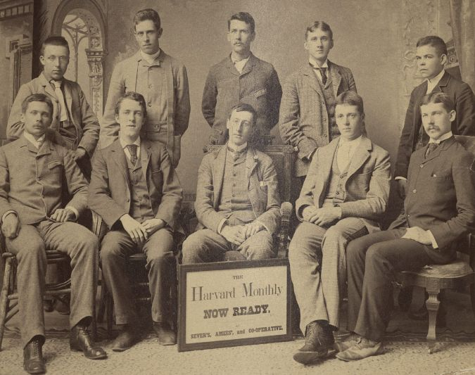 Staff of The Harvard Monthly 1888. Pictured are Back Row (lt to rt): H.G. Bruce '88, Herbert Bates '90, R.E.N. Dodge '89, Robert Herrick '90, H. T. Parker '90 Front Row(lt to rt): C.H. Moore '89, W.A. Sanby '89, H. S. Sanford Jr. '88, Wilder Dwight Bancroft '88, M.A. DeWolfe Howe '89 Image was a gift to Harvard by Mark Anthony DeWolfe Howe and is designated HUPSF The Harvard Monthly 1 for the purposes of archive retrieval